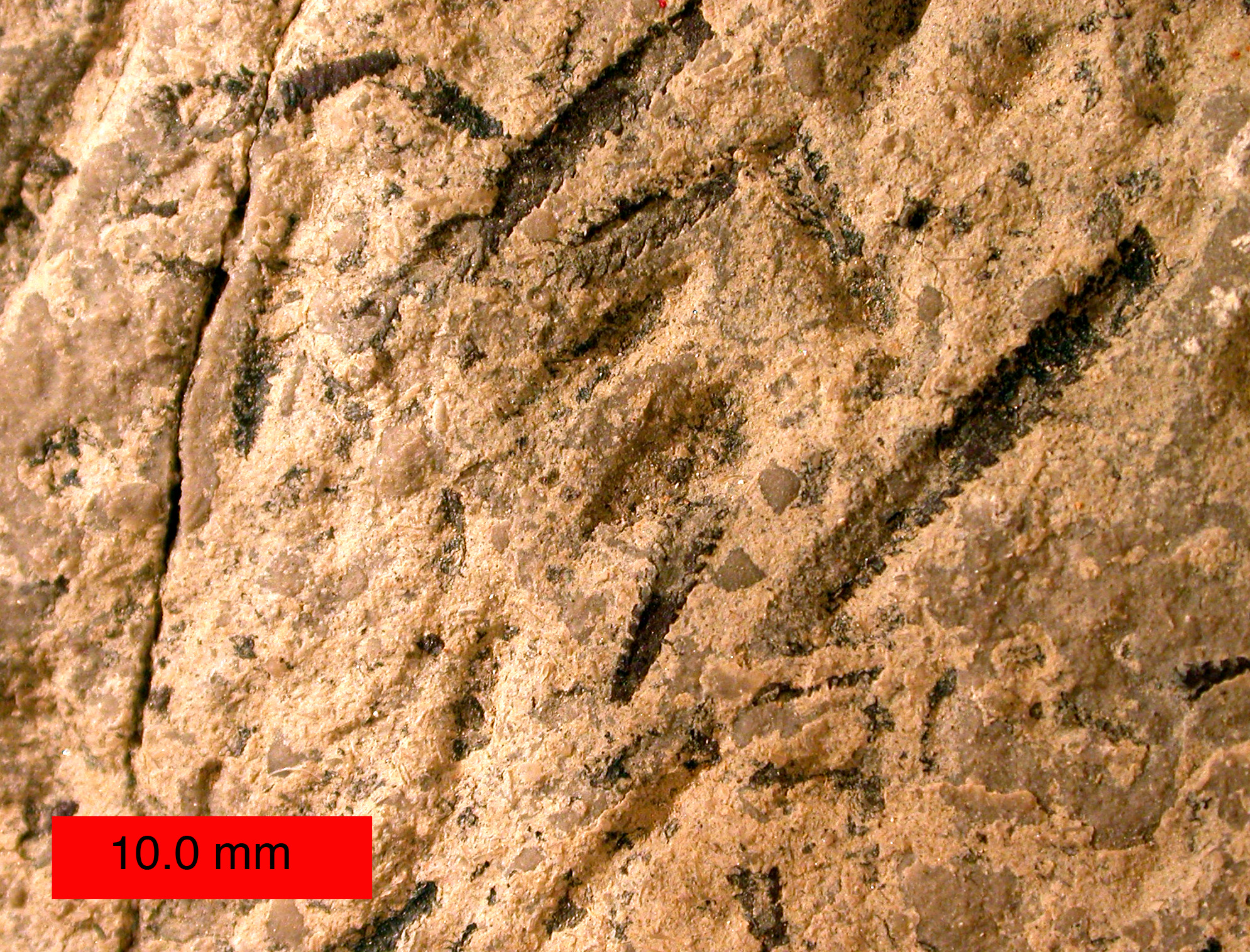 Amplexograptus sp., probably A. perexcavatus (Lapworth, 1876), from the Middle Ordovician near Caney Springs, Tennessee.